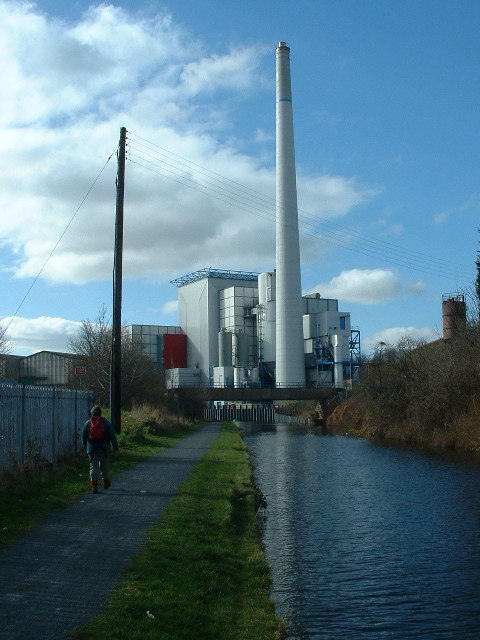 Huddersfield Broad Canal and the Municipal Incinerator